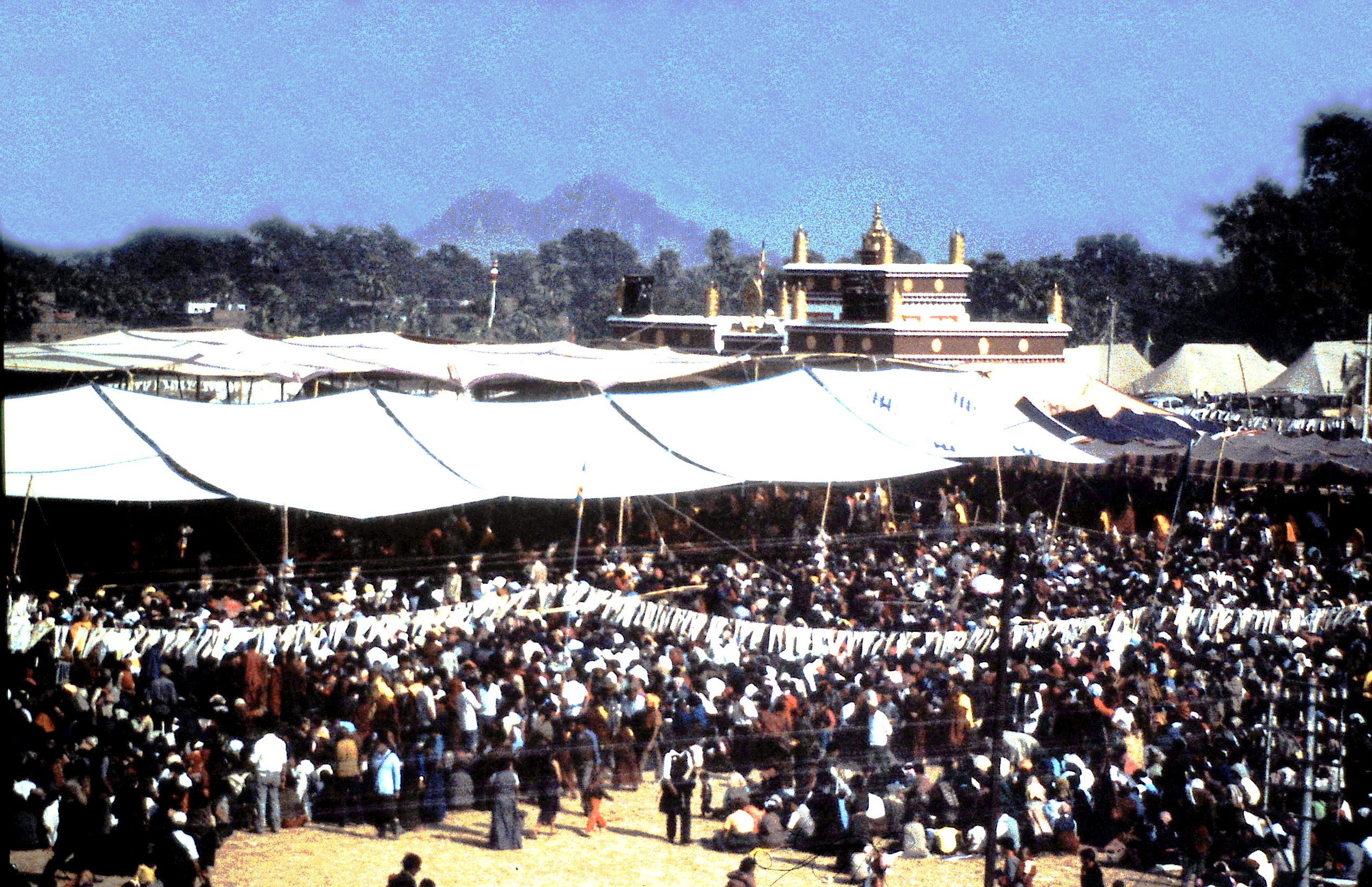 Bodh Gaya Kalachakra crowd overview December 1985. Bihar, India. Initiation and teaching given by 14th Dalai Lama to perhaps 100,000 people, mostly Tibetan exiles. Other information To be used on Wikipedia article on 14th Dalai Lama